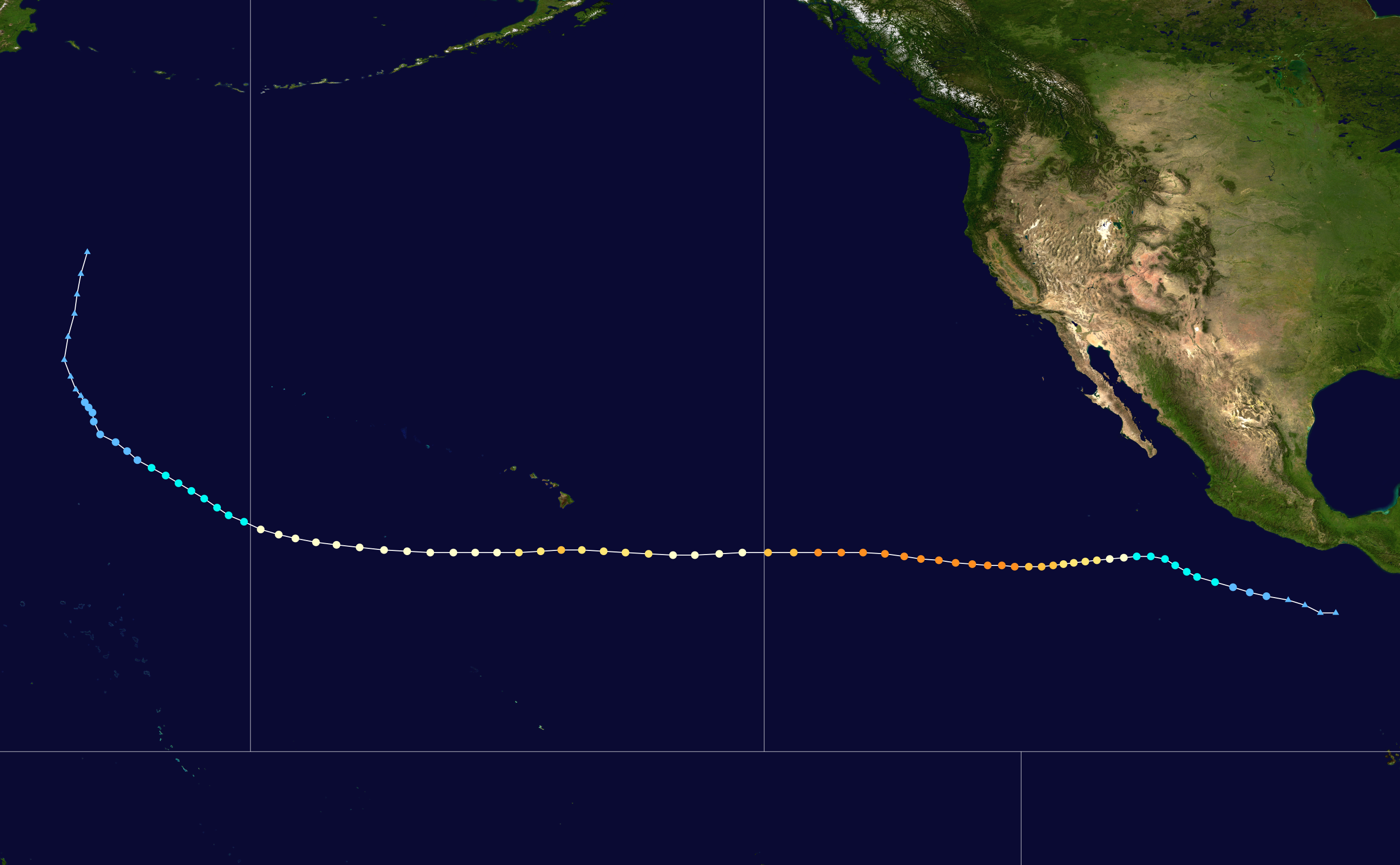 Track map of Hurricane Dora of the 1999 Pacific hurricane season. The points show the location of the storm at 6-hour intervals. The colour represents the storm's maximum sustained wind speeds as classified in the Saffir–Simpson scale (see below), and the shape of the data points represent the nature of the storm, according to the legend below. Saffir–Simpson scale Tropical depression≤38 mph≤62 km/h Category 3111–129 mph178–208 km/h Tropical storm39–73 mph63–118 km/h Category 4130–156 mph209–251 km/h Category 174–95 mph119–153 km/h Category 5≥157 mph≥252 km/h Category 296–110 mph154–177 km/h Unknown Storm type Tropical cyclone Subtropical cyclone Extratropical cyclone / Remnant low / Tropical disturbance / Monsoon depression